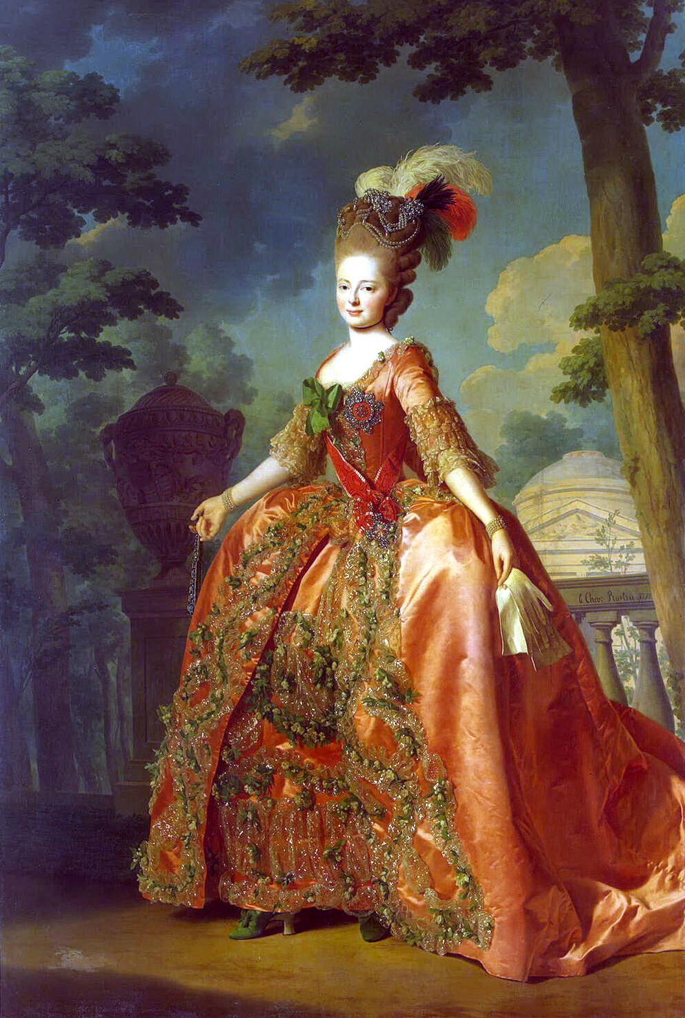 at the age of 18